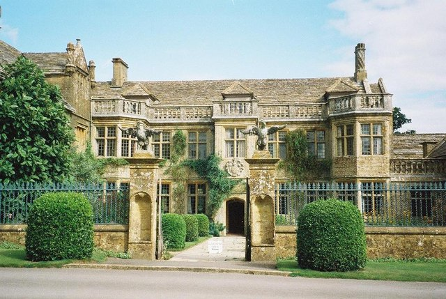 Mapperton House The manor's interesting gardens are open to the public – see other pictures in this square.